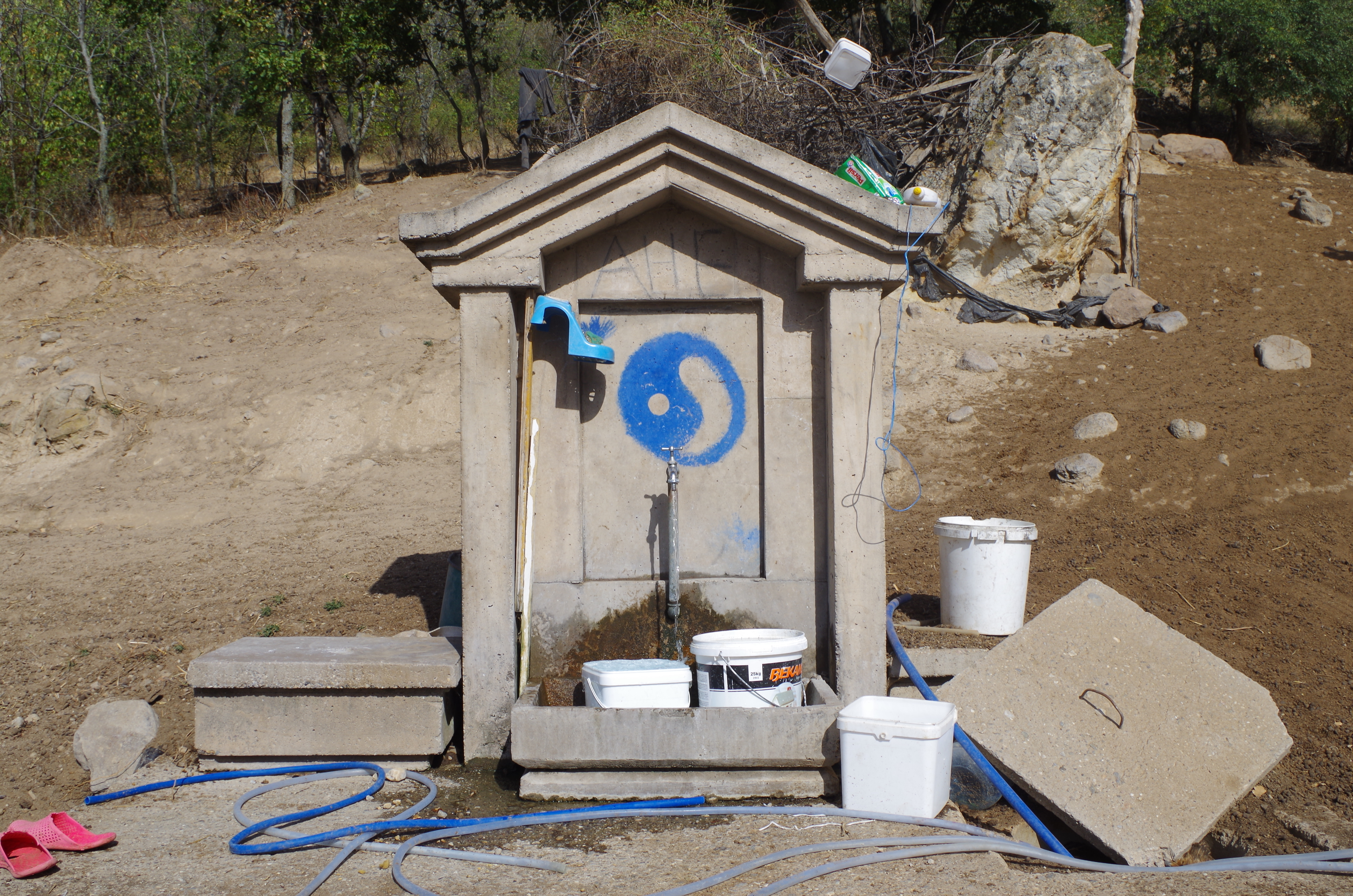 Pump in the village of Garnikovo